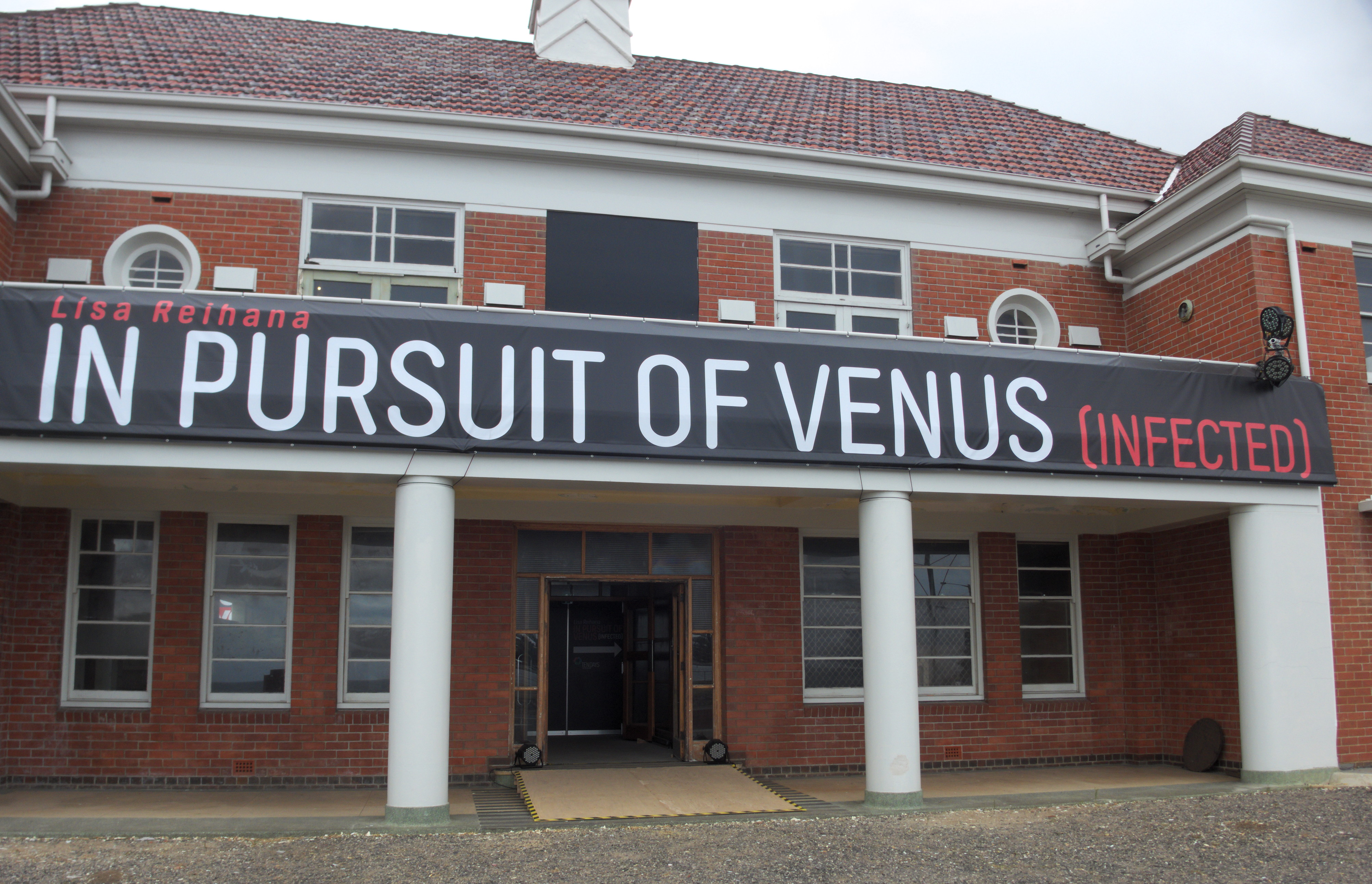 Banner for Lisa Reihana's "In Pursuit of Venus [infected]" exhibition in the Services Building of the former pulp and paper mill in Burnie, Tasmania.